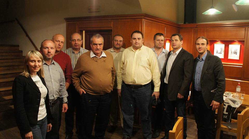 Members of the Nestor Group, an informal group of Ukrainian intellectuals, experts and civic activists, during a meeting with Karel Schwarzenberg in Prague